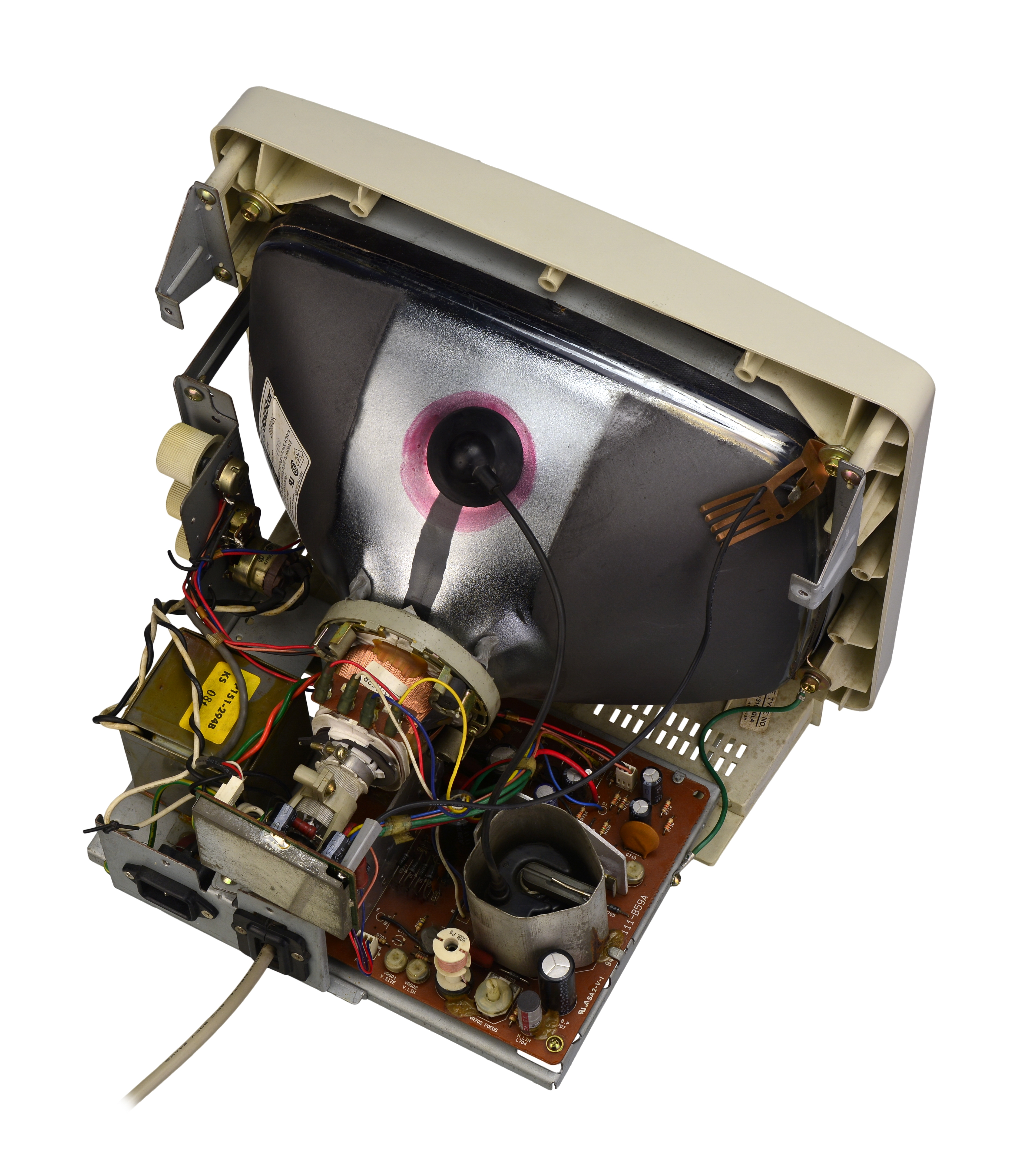 The Schneider MM12 Monochrome Monitor from 1988. It uses a GoldStar amber phosphor cathode ray tube (CRT) and VGA cable. The assembly process required directly soldering and tying many cables in between components, making disassembly complicated.